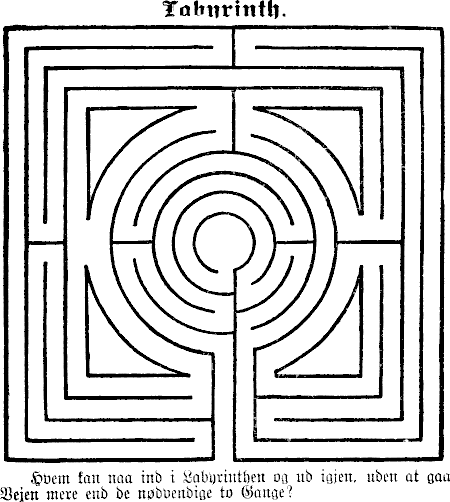 Labyrinth "Who can get into the labyrinth and back out, without walking the path more than the necessary two times"